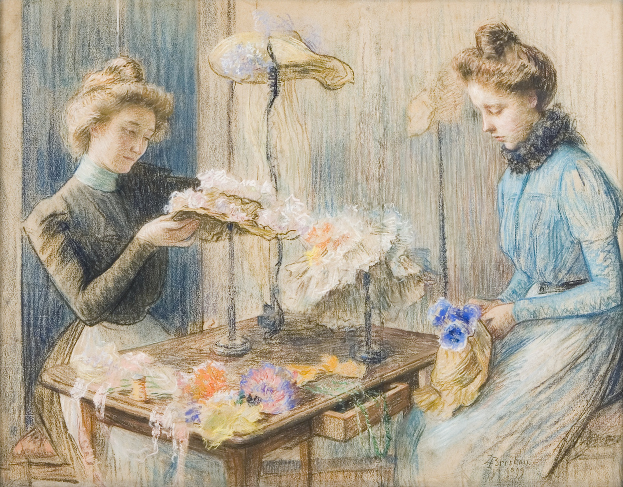 The Milliners